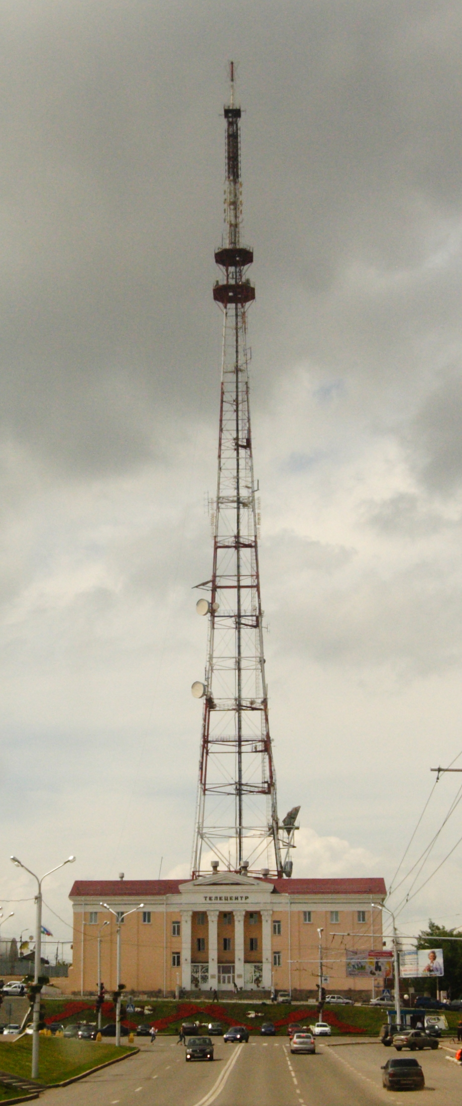 TV tower and TV-centre in Ufa.